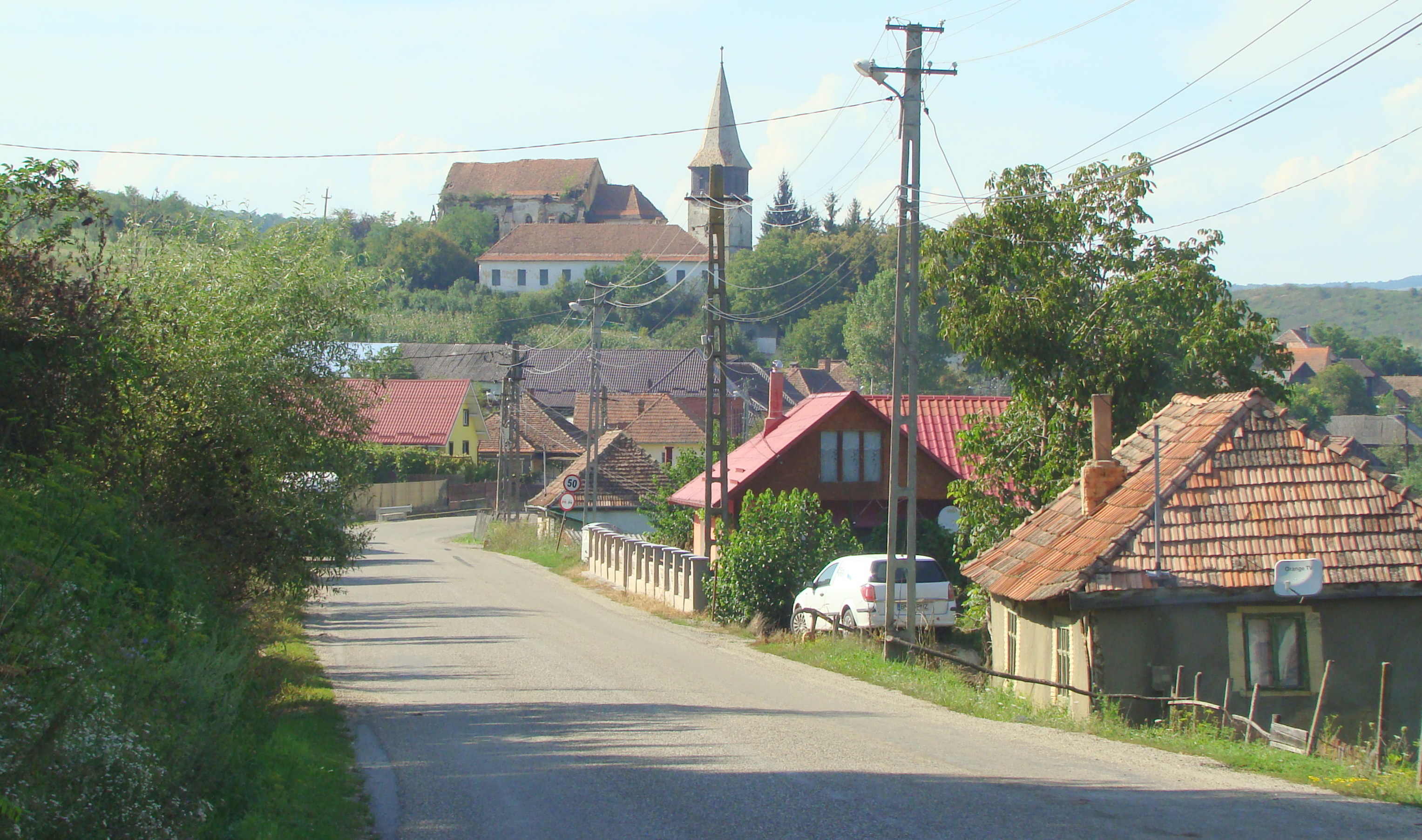 Lutheran church in Vermeș, Bistrița-Năsăud county, Romania